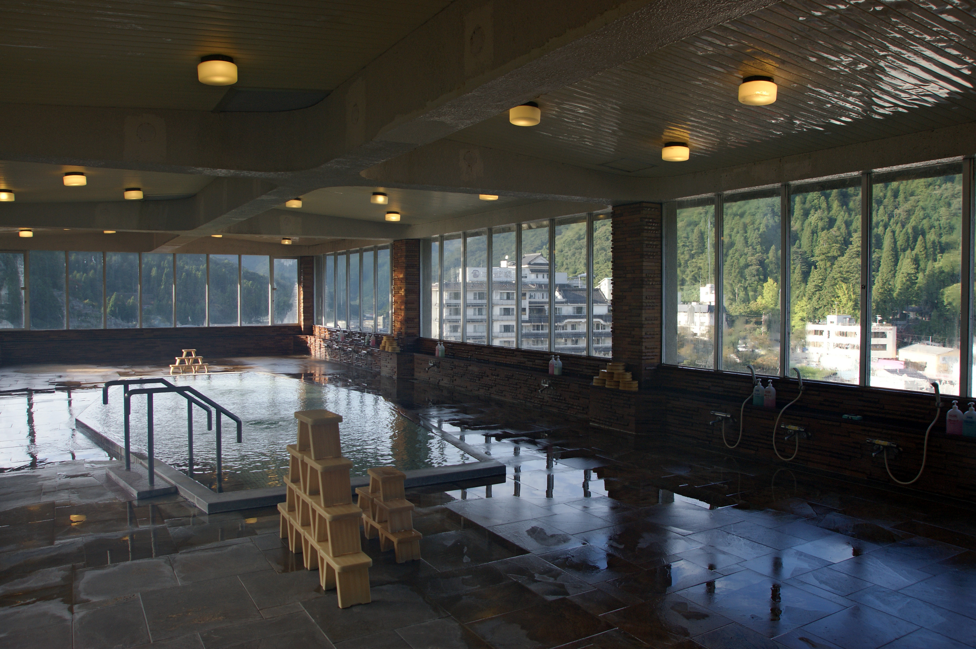 Yumura Onsen, Shinonsen, Hyogo prefecture, Japan